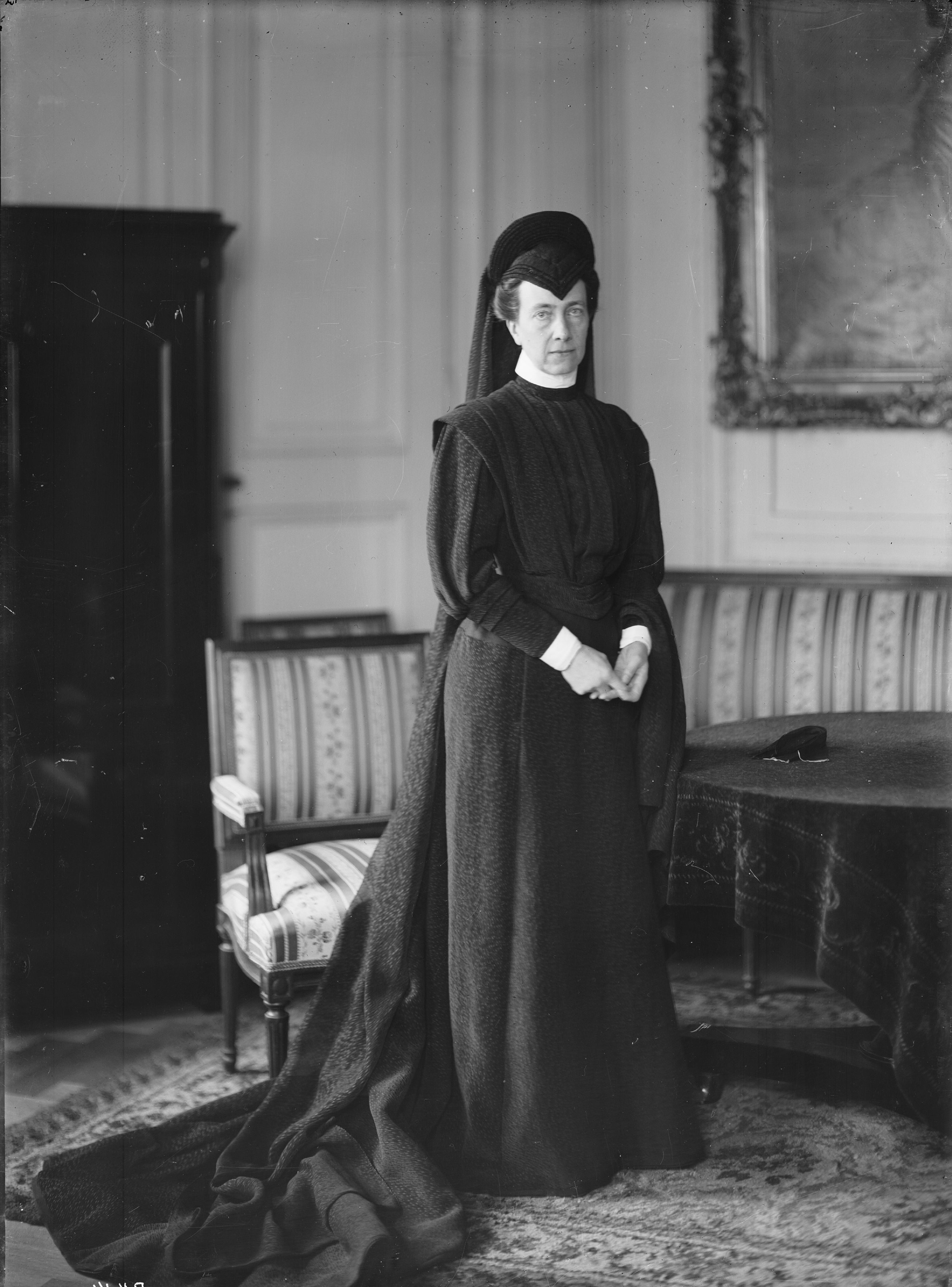 Black dress for funeral in sweden during 1700's.